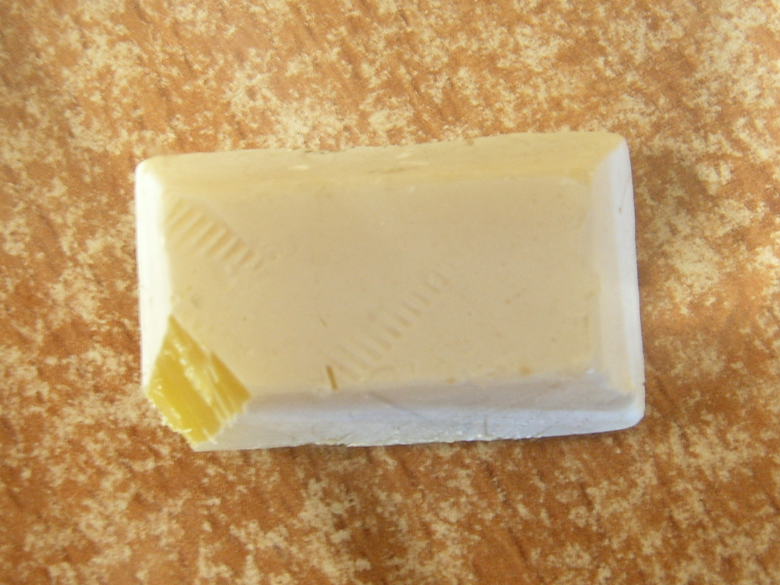 White phosphorus under water 中文（中国大陆）: 水中的白磷，有个黄色的切角